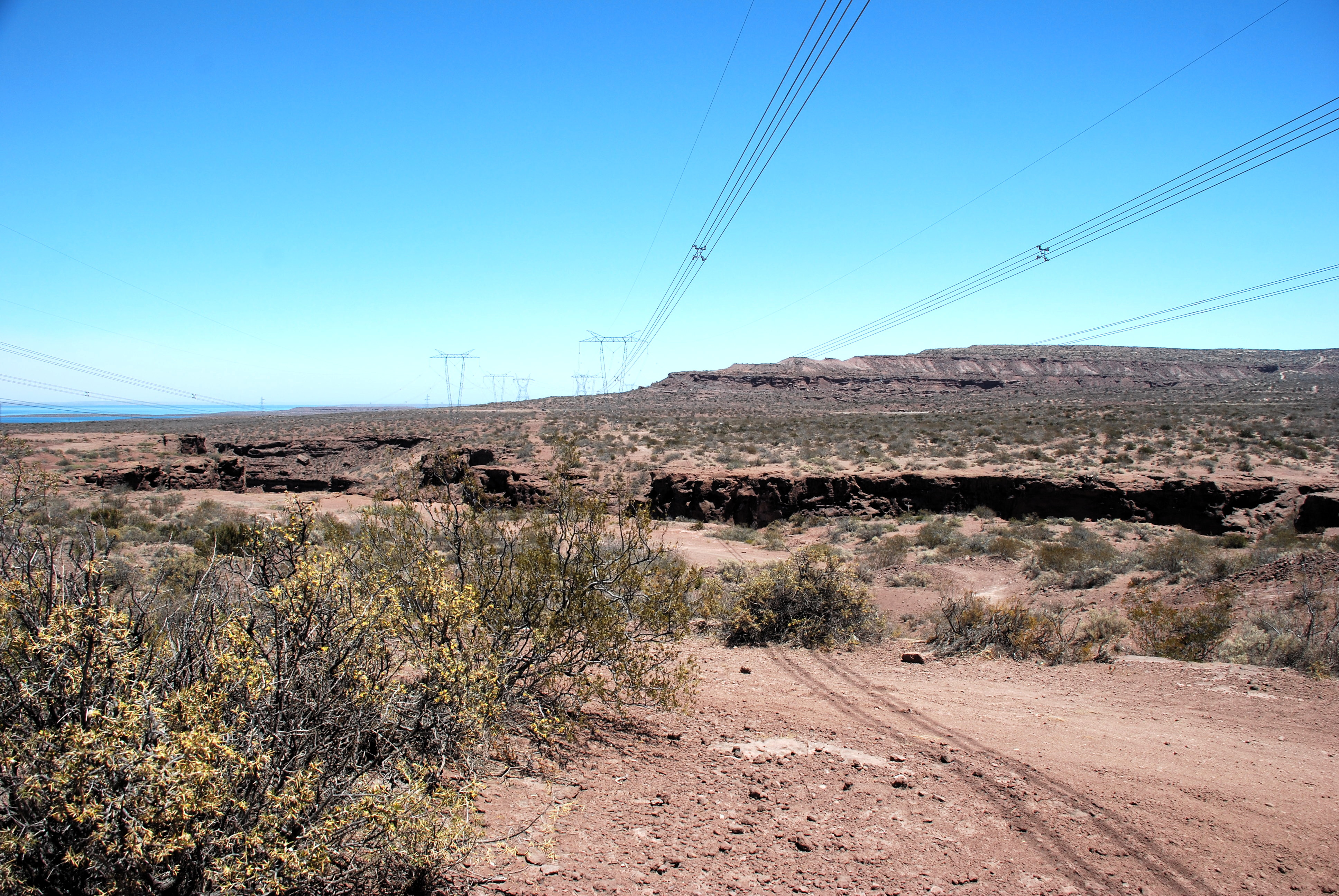 High voltage poles at El Chocón, in the northwestern Argentine Patagonia (the Comahue region)